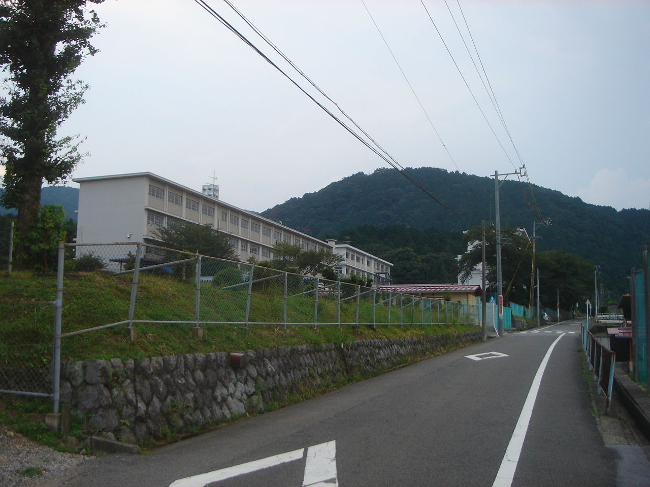 Gifu Prefectural Fuwa High School（岐阜県立不破高等学校）,Tarui,Gifu,Japan(岐阜県垂井町)で撮影。